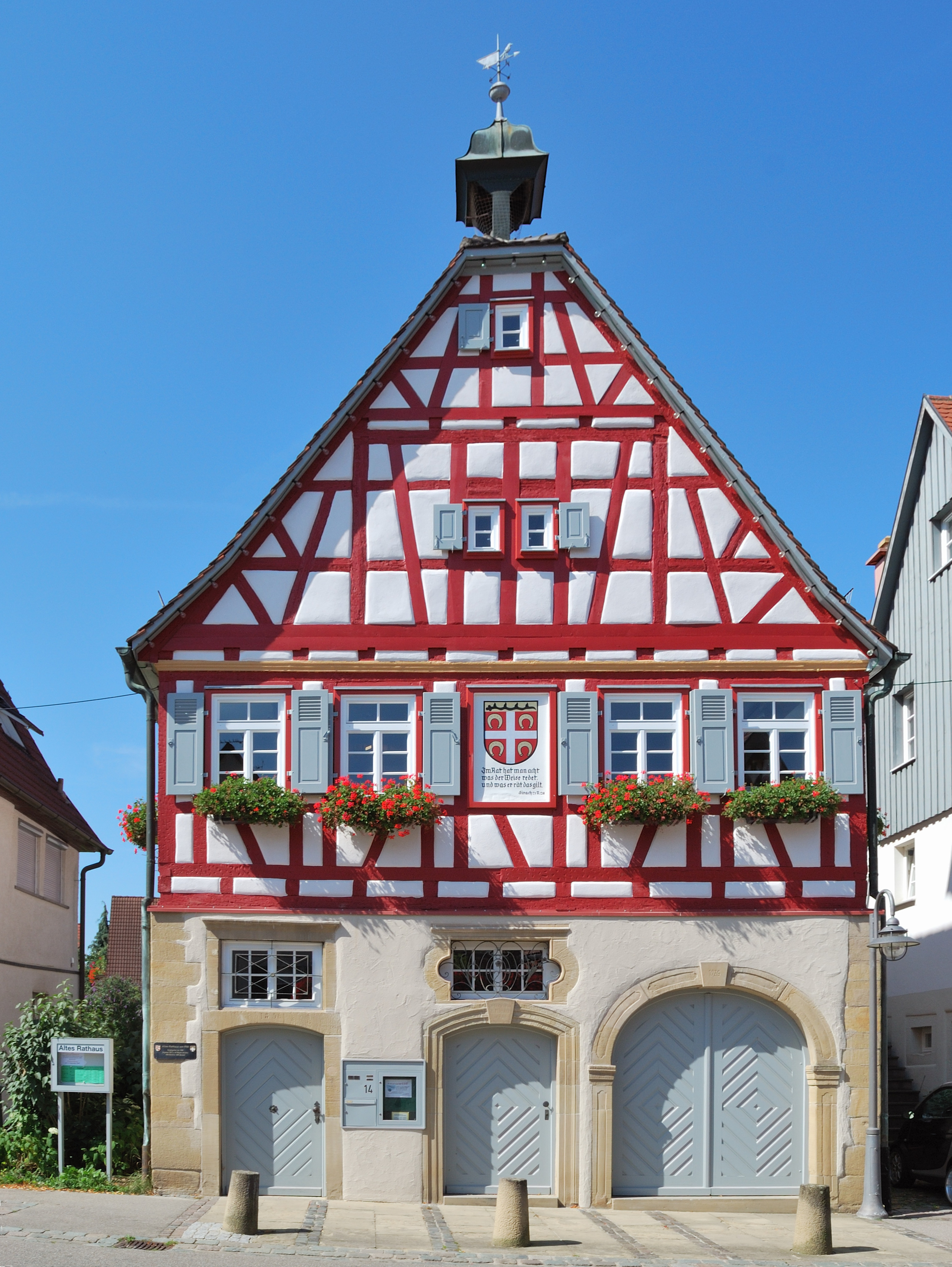 The former municipal hall in Schöckingen, Baden-Württemberg, Germany. The timber framed building from 1788 was rebuild in 1927 and serves since 1983 as a library and since 1987 as the towns museum.